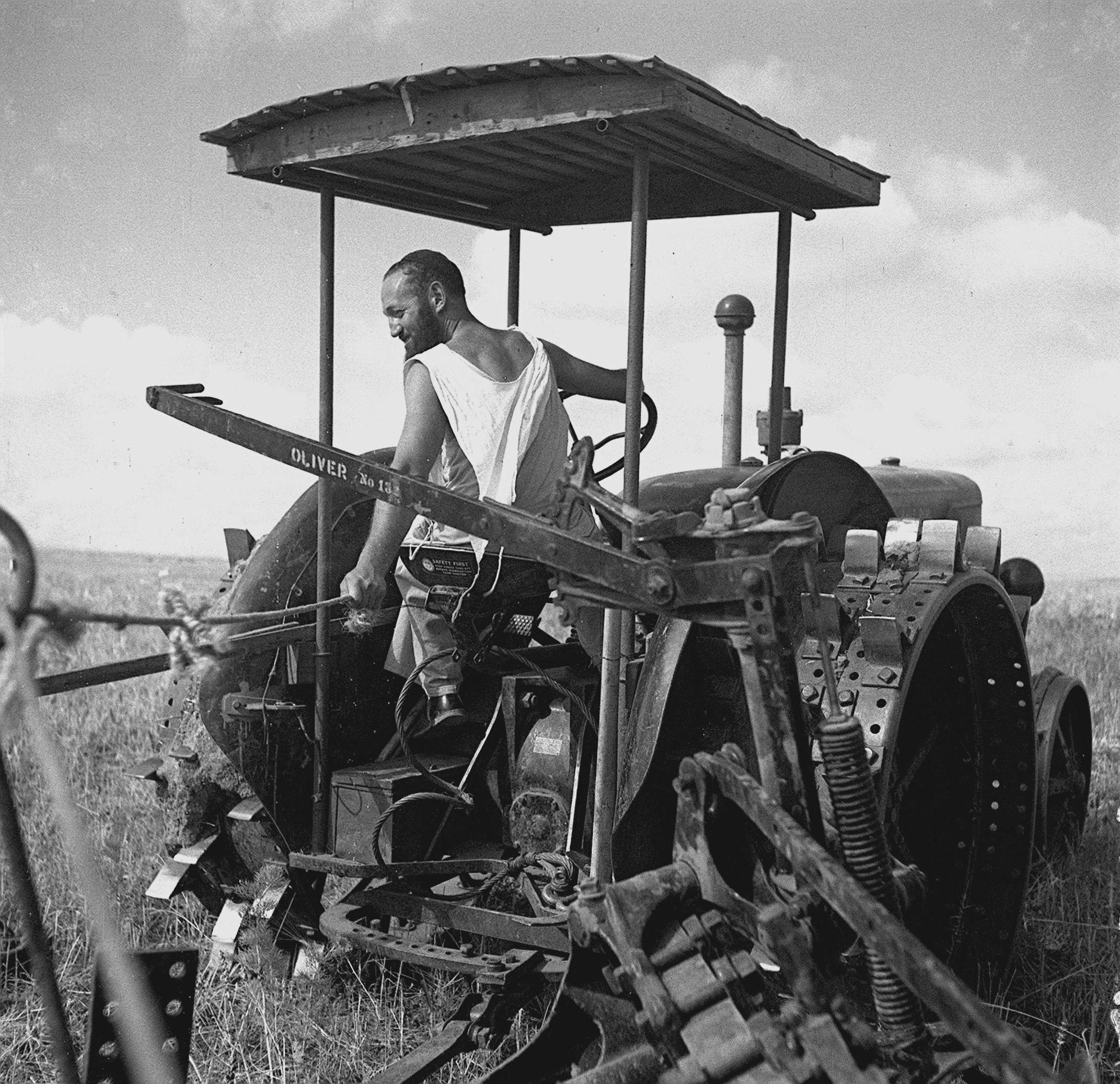 A MEMBER OF KIBBUTZ HAFETZ HAIM PLOUGHING A FIELD. חבר קיבוץ חפץ חיים עובד עם מחרשה בשדות.